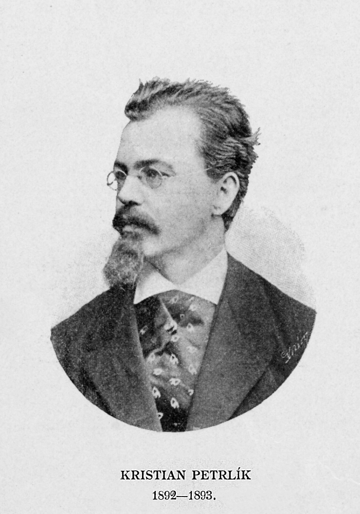 Kristian Petrlík (1842-1908) was a czech civil engineer. Česky: Kristian Petrlík (1842-1908) byl český stavební inženýr, profesor pražské techniky a ve dvou funkčních obdobích též její rektor.